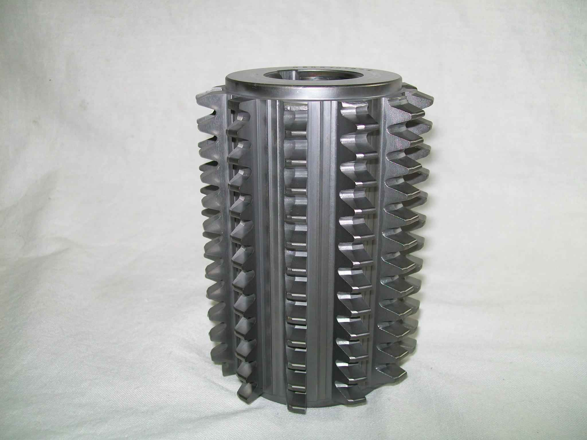 Aluminium Chromium Titanium Nitride coated hob, recoated tools